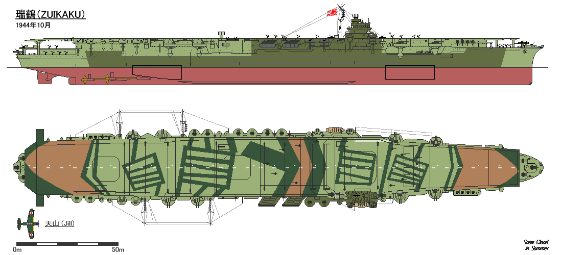 Drawing of the Japanese aircraft carrier Zuikaku in October 1944. Part of camouflage and its colours are presumption.